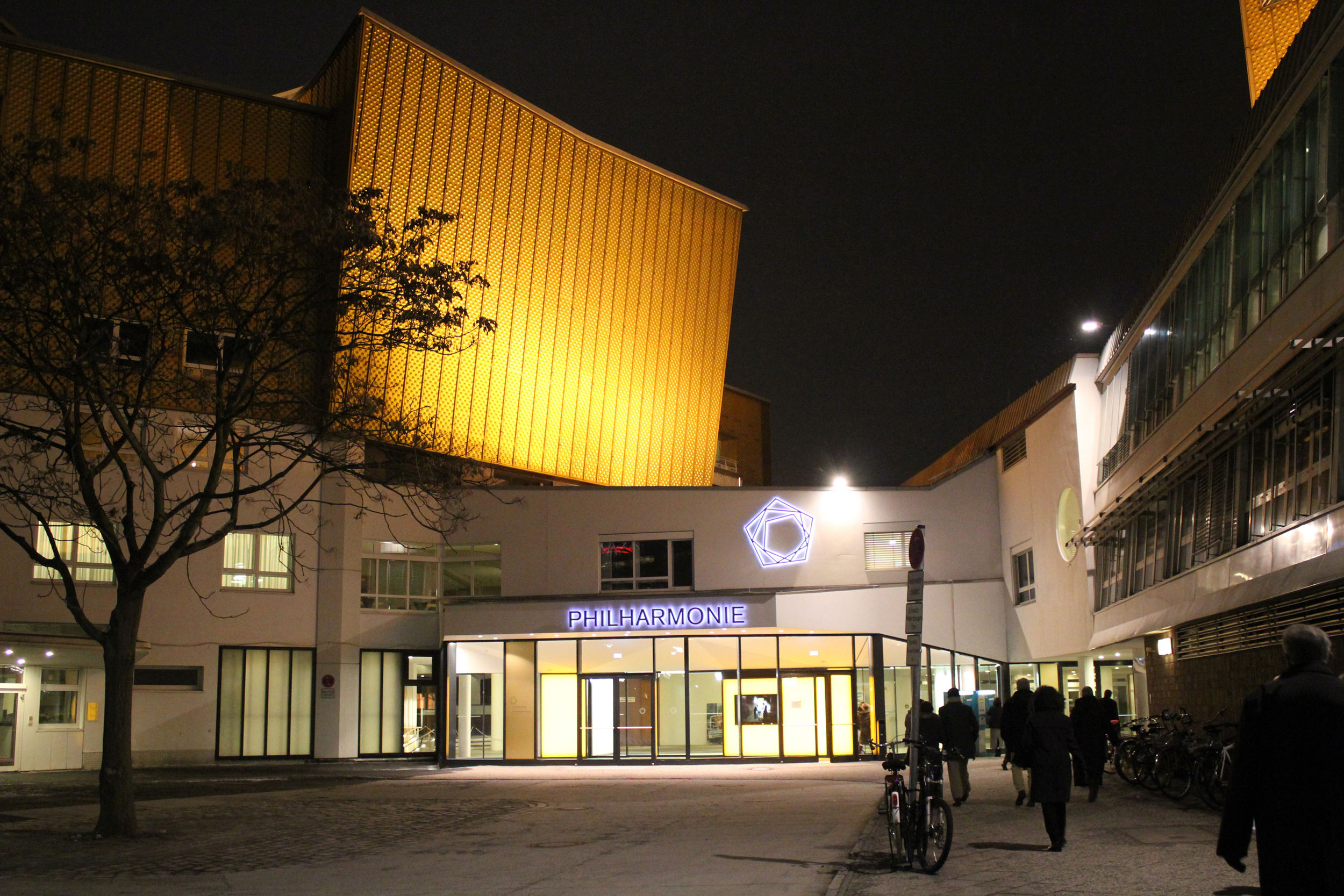 Berliner Philharmonie 2013 winter